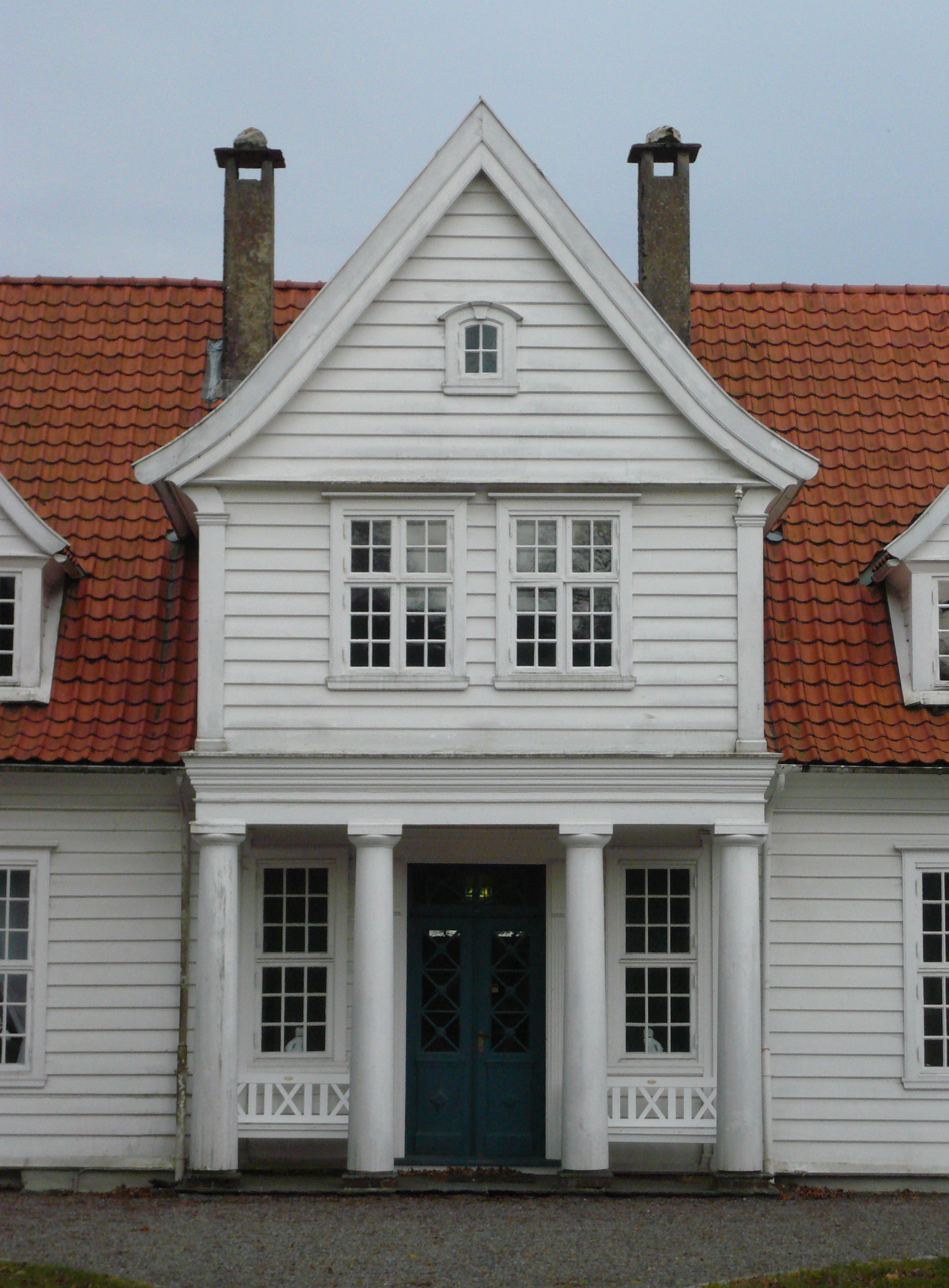 Stend hovedgård, Bergen, Norway